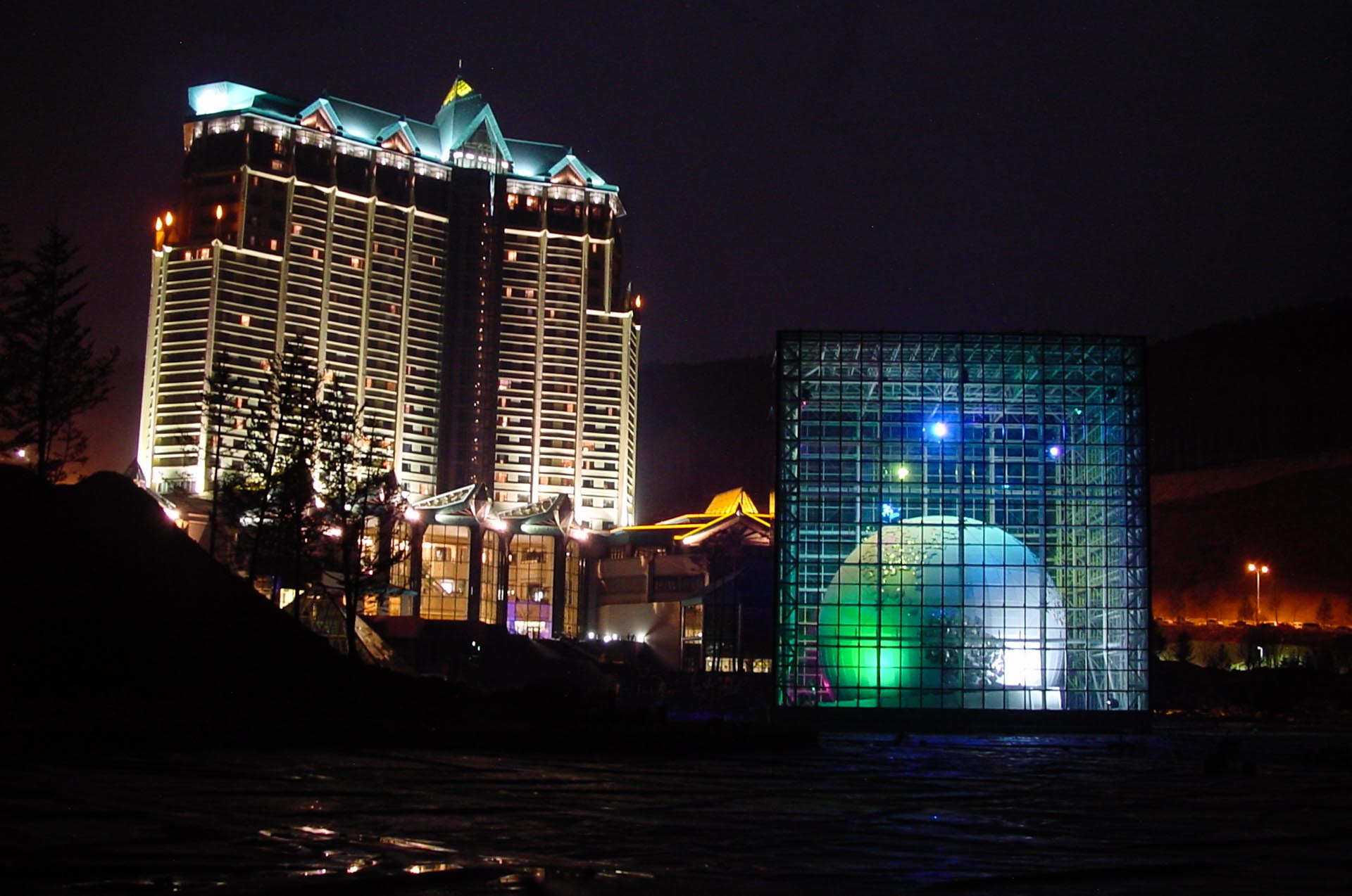 Night time view at Kangwon Land Resort and Magical Box